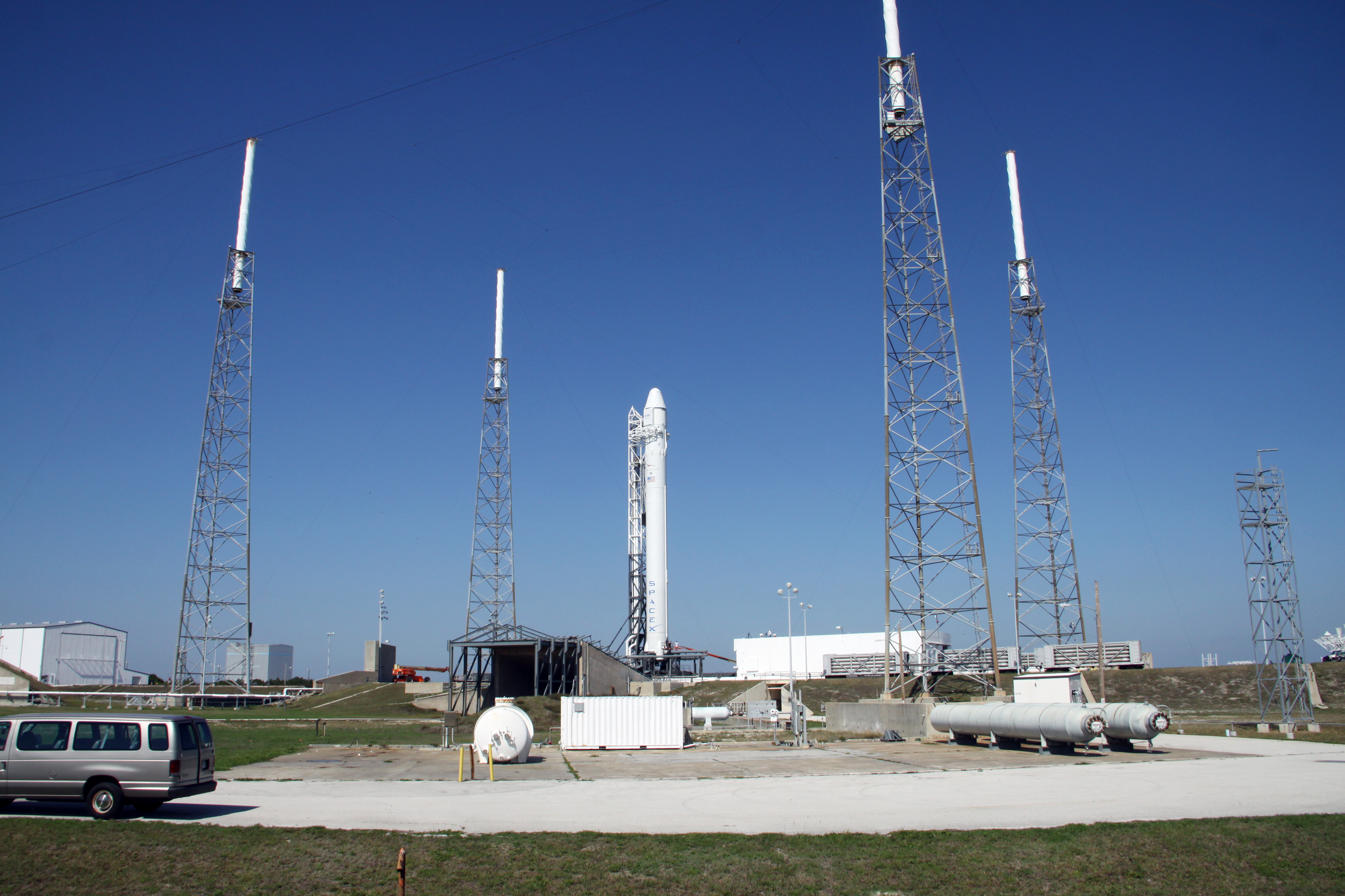 The SpaceX Falcon 9 rocket is nestled between the lightning masts protecting the pad at Space Launch Complex-40 on Cape Canaveral Air Force Station in Florida. The vehicle rolled out to the pad on the evening of May 17. Liftoff with the Dragon capsule on top is set for 4:55 a.m. EDT on May 19. The launch will be the company's second demonstration test flight for NASA's Commercial Orbital Transportation Services Program, or COTS. During the flight, the capsule will conduct a series of check-out procedures to test and prove its systems, including rendezvous and berthing with the International Space Station. If the capsule performs as planned, the cargo and experiments it is carrying will be transferred to the station. The cargo includes food, water and provisions for the station’s Expedition crews, such as clothing, batteries and computer equipment. Under COTS, NASA has partnered with two aerospace companies to deliver cargo to the station. For more information, visit